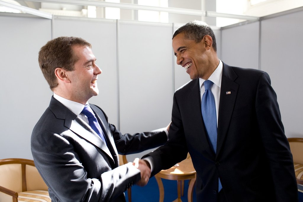 President Obama meets President Medvedev at the Business Forum on July 6, 2009